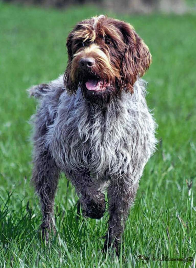 the first genuine Korthals Griffon in the USA to earn both a Grand Championship and the Advanced Master Hunter title